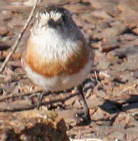 Chestnut-breasted Whiteface (Aphelocephala pectoralis), Strzelecki Track, South Australia.